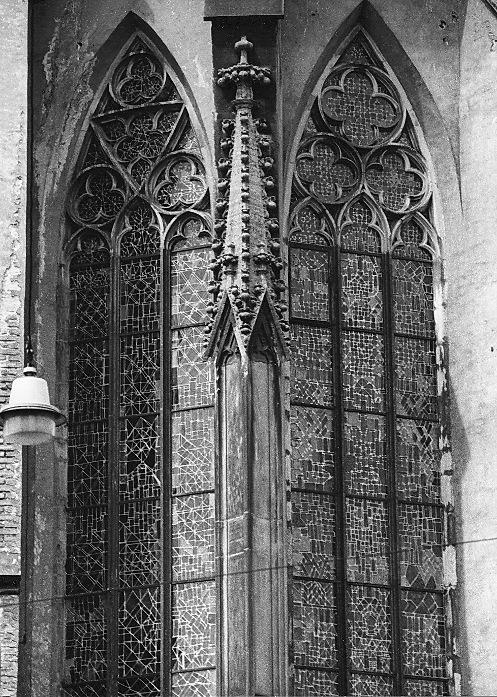 Outside wall of the Cathedral of Augsburg (Germany) with two stained glass windows